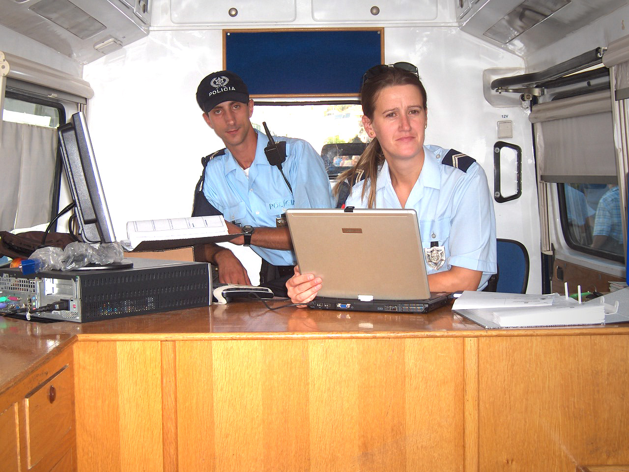 Police officers in a mobile unit; Lisbon, Portugal